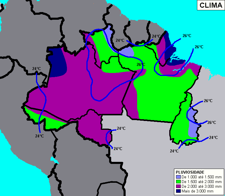 North of Brazil climate map.